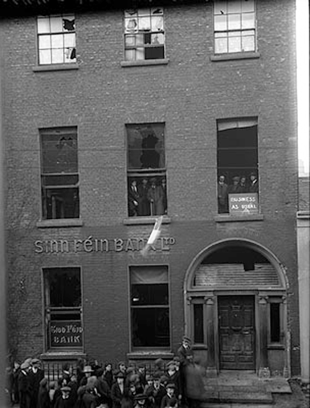 Sinn Féin Bank at No. 6 Harcourt Street, Dublin following shelling. Cardinal John Henry Newman lived at this address, and 6 Harcourt Street was one of three buildings housing the Irish Catholic University (founded by Newman on 3 November 1854) that went on to be University College Dublin. As Free State Aire Airgid (Minister for Finance), Michael Collins was based in this building and there is still a surviving escape tunnel under no. 6. Questions were asked of the Minister for Finance in the Dáil in May & December 1931 as to when depositors of the Sinn Féin People's Bank, then in liquidation, would be paid. The Australian newspaper, The Marlborough Express, reported the following on 1 December 1920: "The authorities raided the Sinn Fein bank at Dublin. They tore up the floors and discovered a secret underground safe, which was not revealed on the occasion of the previous search. They blew open the safe, which contained £500 and important documents associated with the name of Michael Collins, chief of staff of the Irish Republic." No. 6 Harcourt Street is now the head office of Conradh na Gaeilge. NLI Ref.: Ke 208